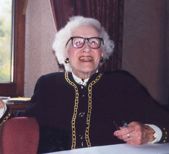 Millvina Dean, British Titanic Society Titanic Convention, Hilton Hotel, Southampton, U.K. 1999